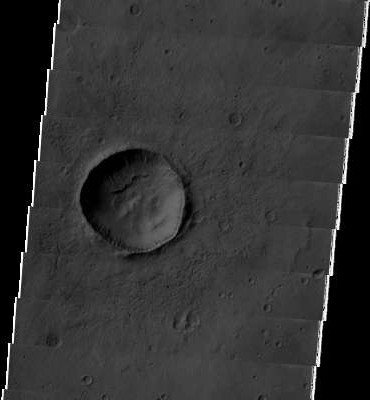 Nybyen crater on Mars, imaged by THEMIS VIS. Emission Angle: 11.2 Incidence Angle: 53.5 Latitude: -36.8 Longitude: 343.4 Phase Angle: 63.8 Pixel Resolution: 17.6